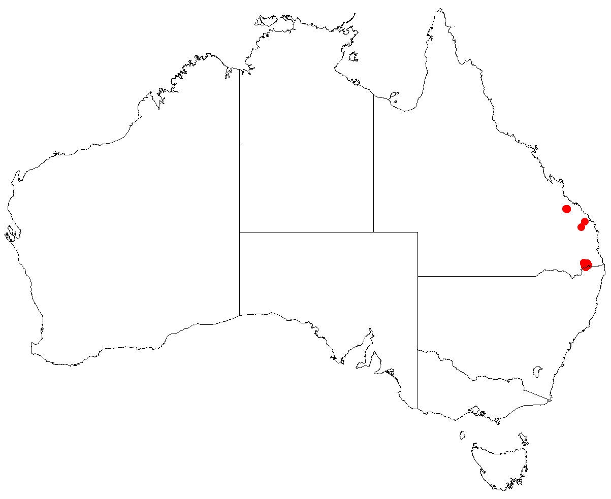 Australian distribution of Muellerina myrtifolia based on download from Australasian Virtual Herbarium May 9, 2018